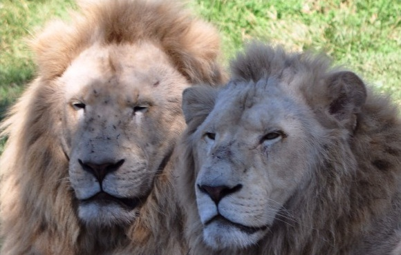 White lions at National Zoo & Aquarium Canberra